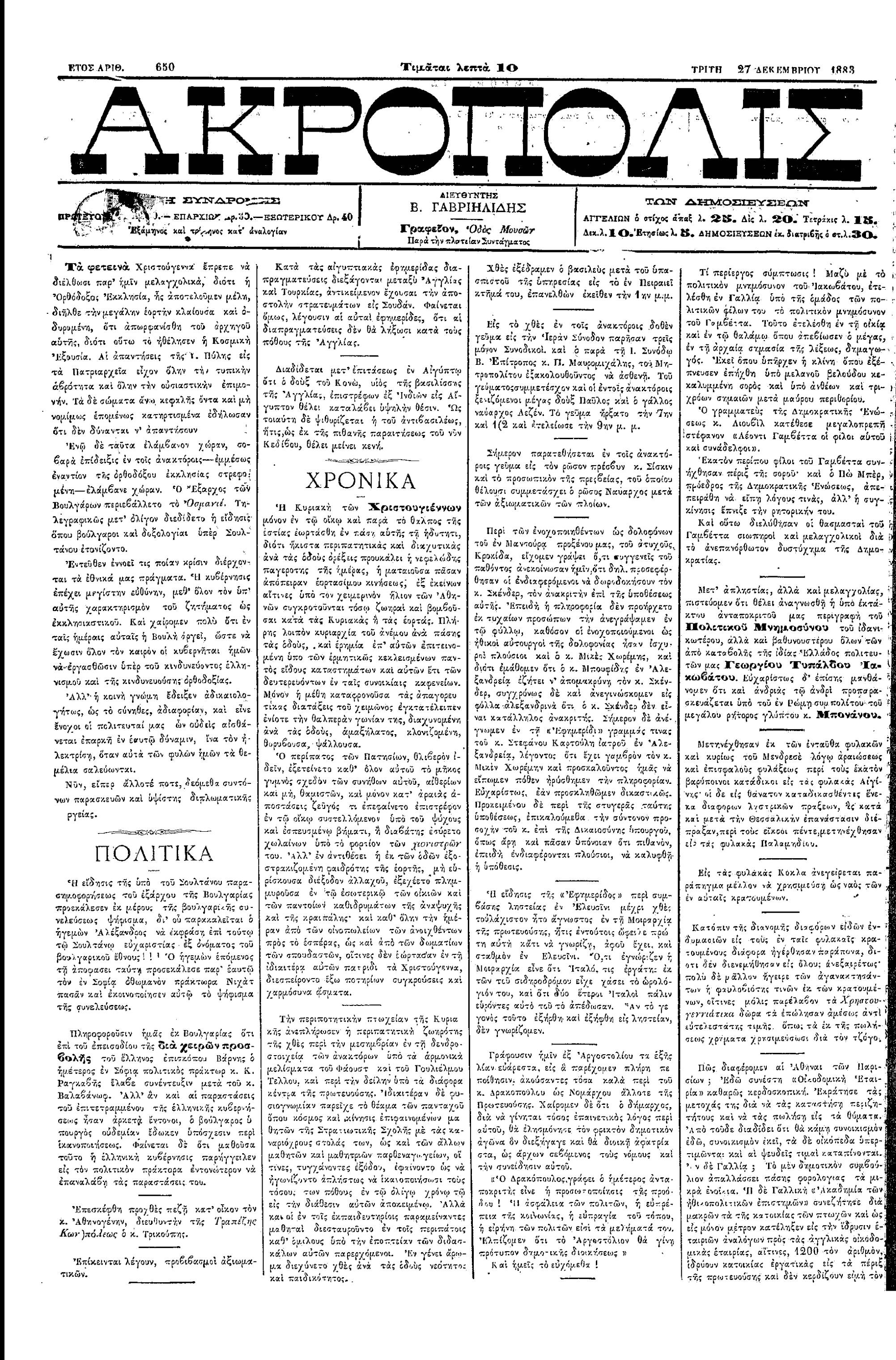 Akropolis newspaper, front page, 31 Dec 1883